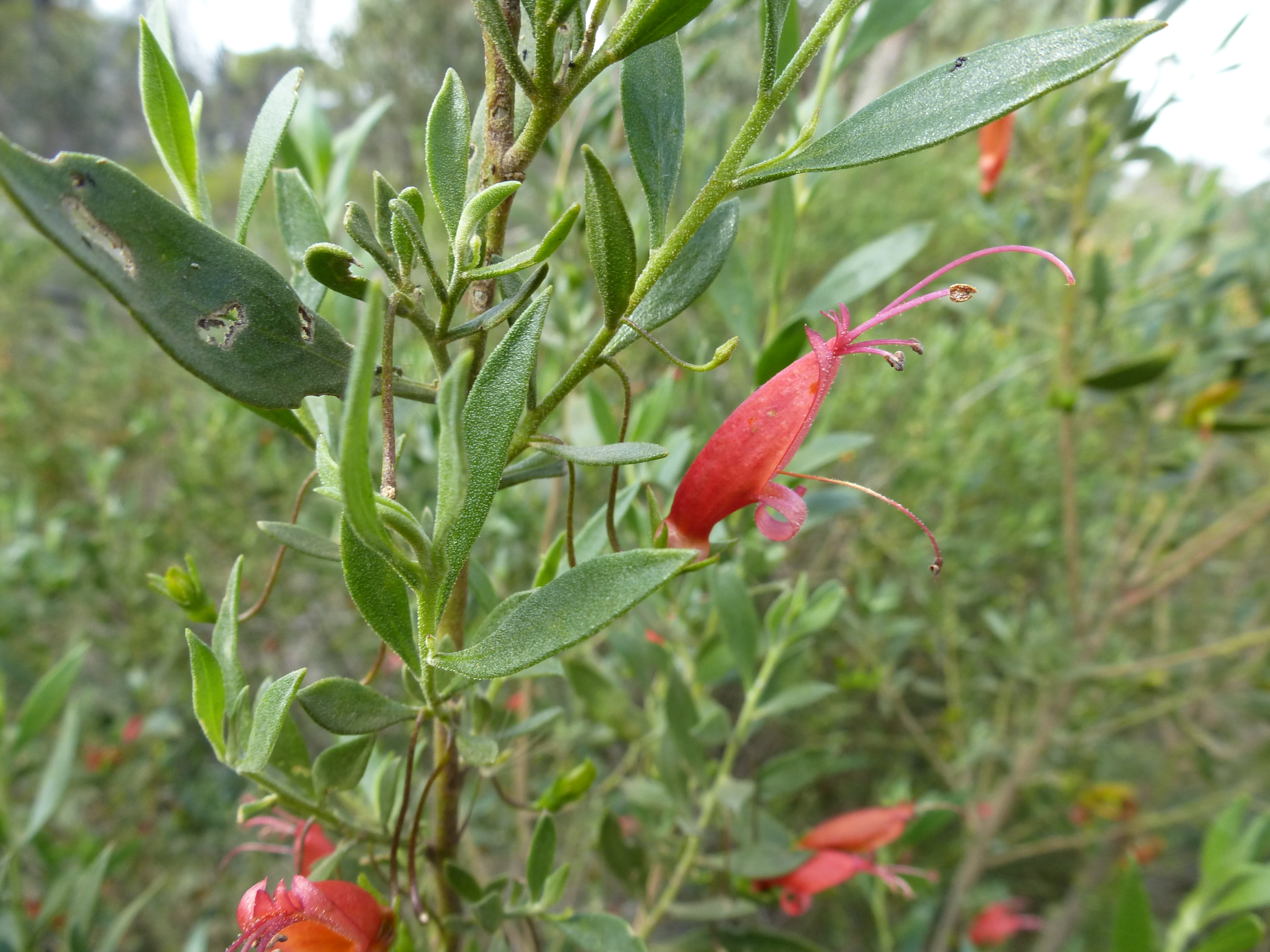 Eremophila decipiens decipiens in the Kalgarin Nature Reserve, east of Hyden